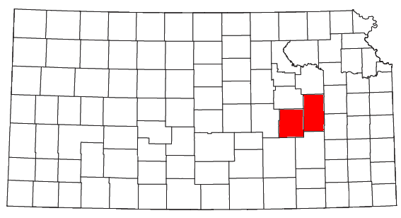 Locator map of the Hannibal Micropolitan Statistical Area in the east central part of the U.S. state of Kansas.